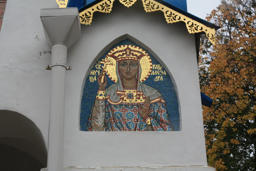 Feodorovsky Cathedral in Tsarskoye Selo. Tsar's entrance mosaic (right)